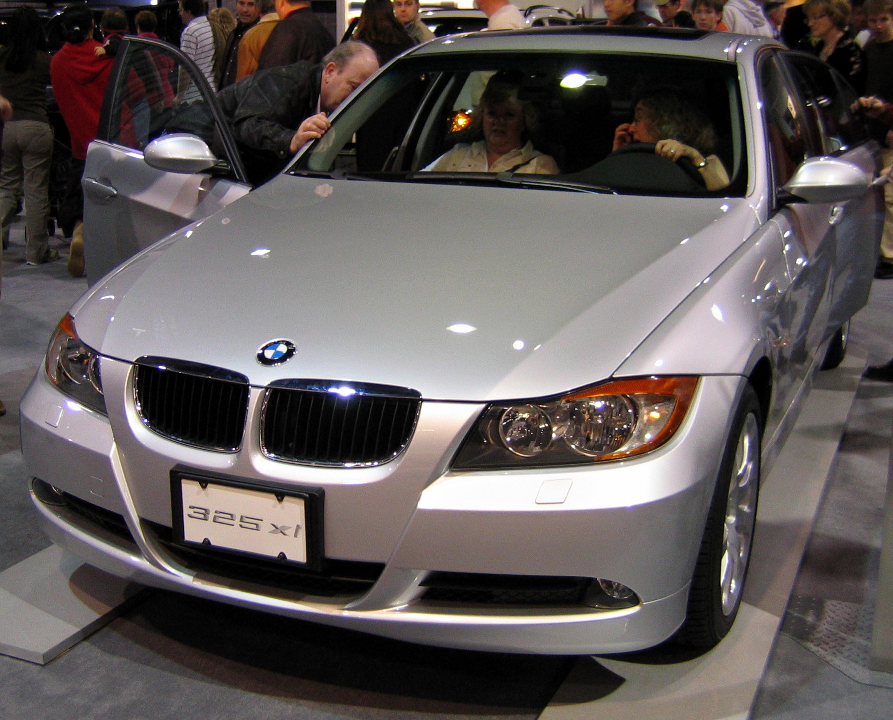 Photo by User:Aude, taken at the 2006 Washington Auto Show.